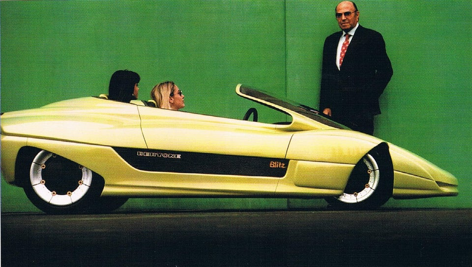 Nuccio Bertone and the 1992 Bertone Blitz with two women in it. It is a twoseater, the passenger seat positioned a bit behind the drivers seat.